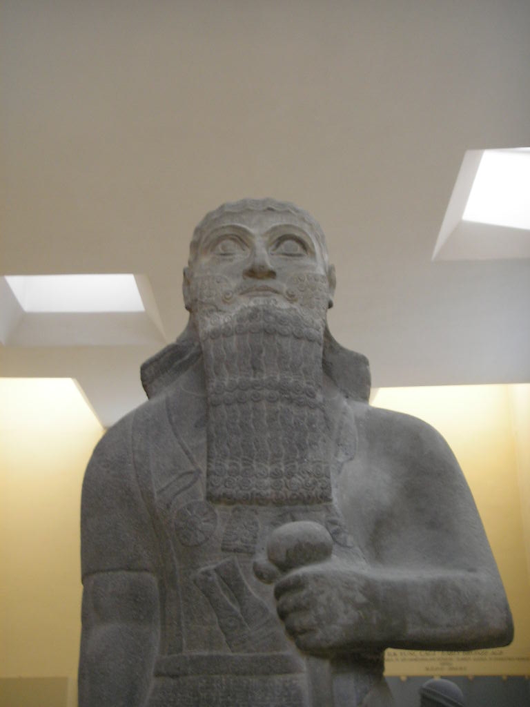 Statue of Shalmaneser III. 858-824 BCE, Neo-Assyrian Period. Assur (Qala't Sharqat) Basalt Inv. No. 4650. In the inscription, the king gives a brief account of his genealogical titles and characteristics as follows: "Shalmaneser, the great king, the mighty king, king of all the four regions, the powerful and the mighty rival of the princes of the whole earth (universe) the great ones, the kings, son of Assur-Nasirapli, king of universe, king of Assyria, grandson of Tukulti-Ninura, king of universe, king of Assyria." The inscription continuous with his campaigns and deeds of the lands of Urarut, Syria, Namri, Que and Tabal and comes to an end as follows: "At that time I rebuilt the walls of my city Ashur from their foundations to their summits. I made an image of my royal self and set it up in the metal-workers gate."